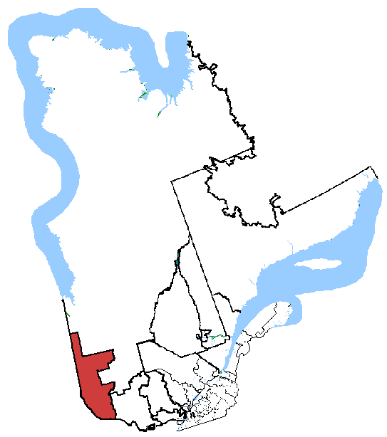 Map of Abitibi—Témiscamingue, Quebec